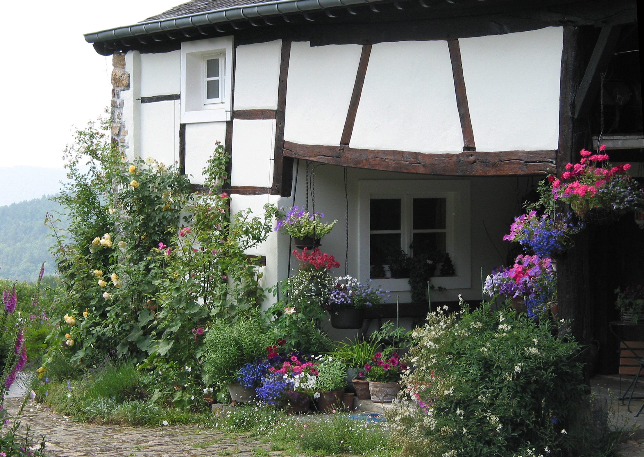 Stoumont (Belgique), timber framing house.